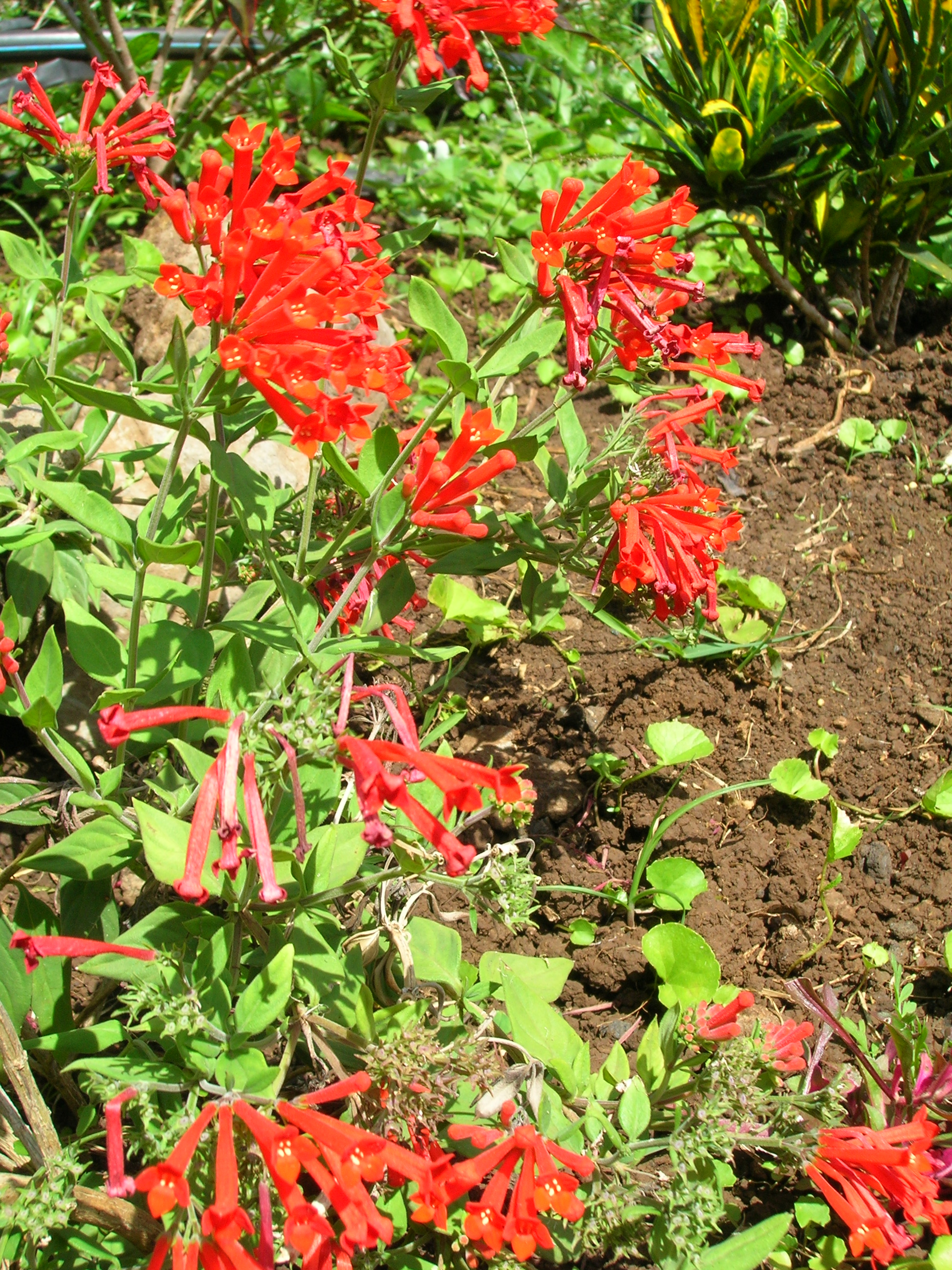 Bouvardia ternifolia (flowers and leaves). Location: Maui, Enchanting Floral Gardens of Kula